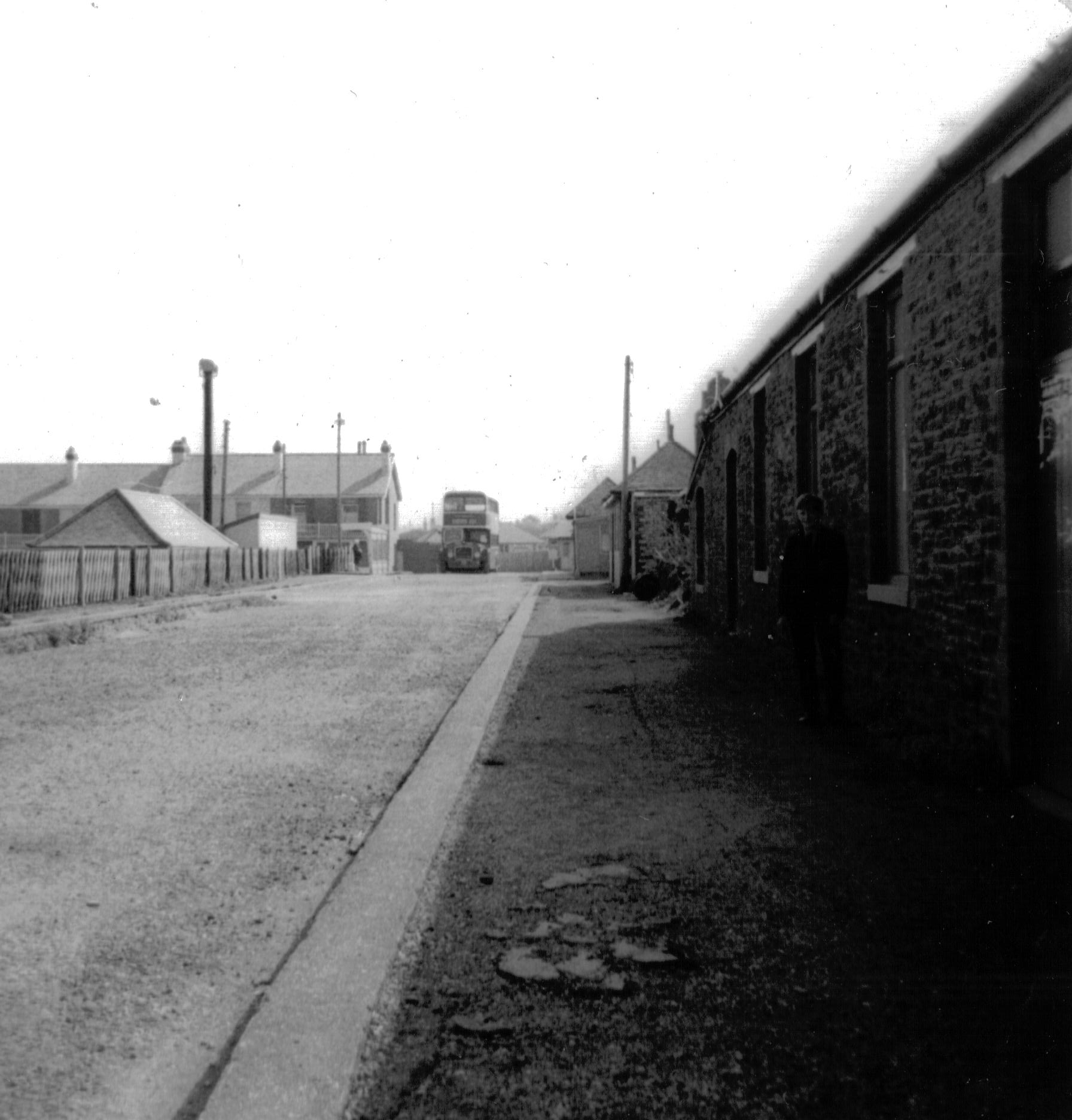 Westward Ho! old railway station looking towards Appledore. In use as a bus station.